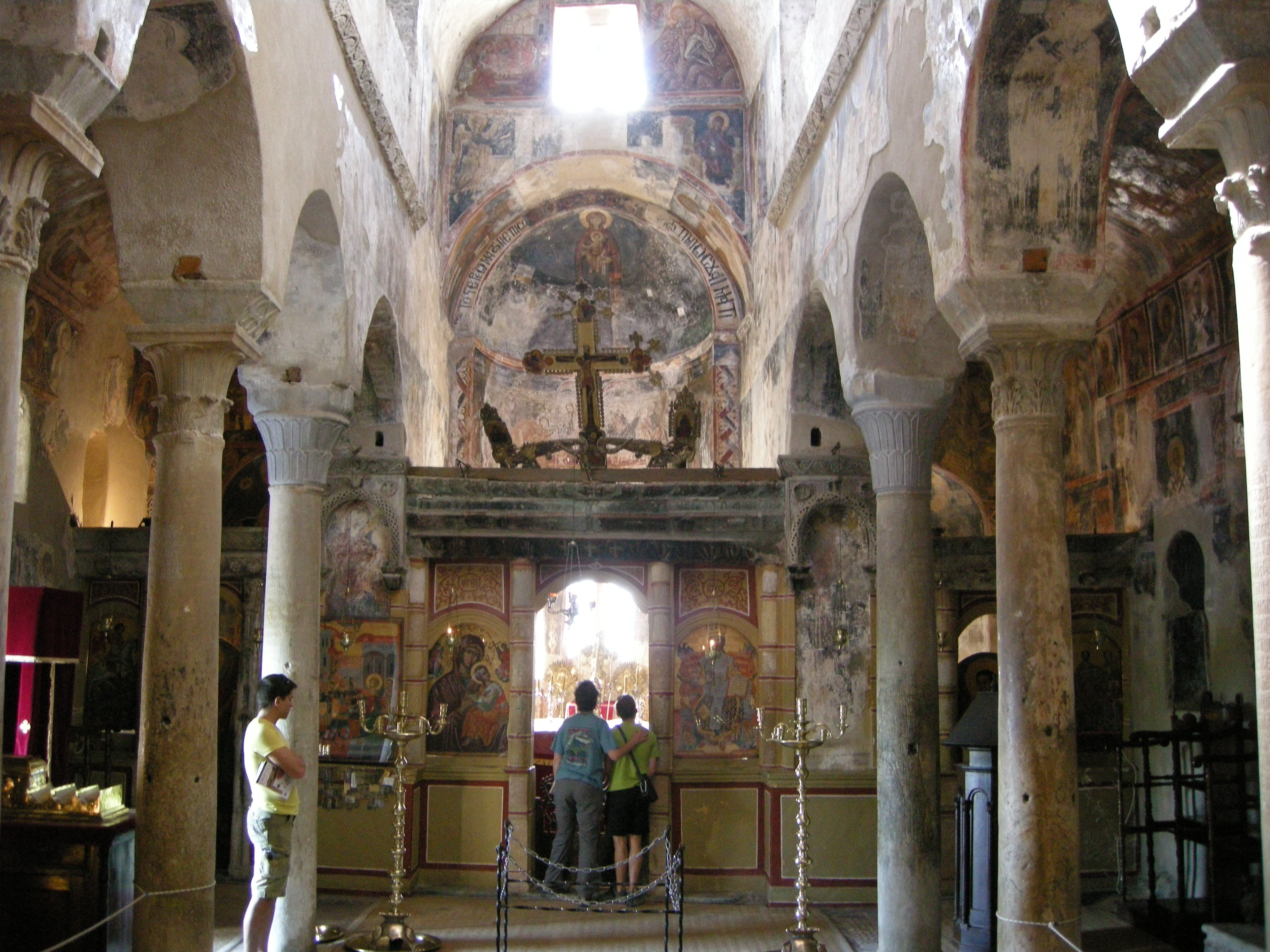 Metropolis of Mystras, inside